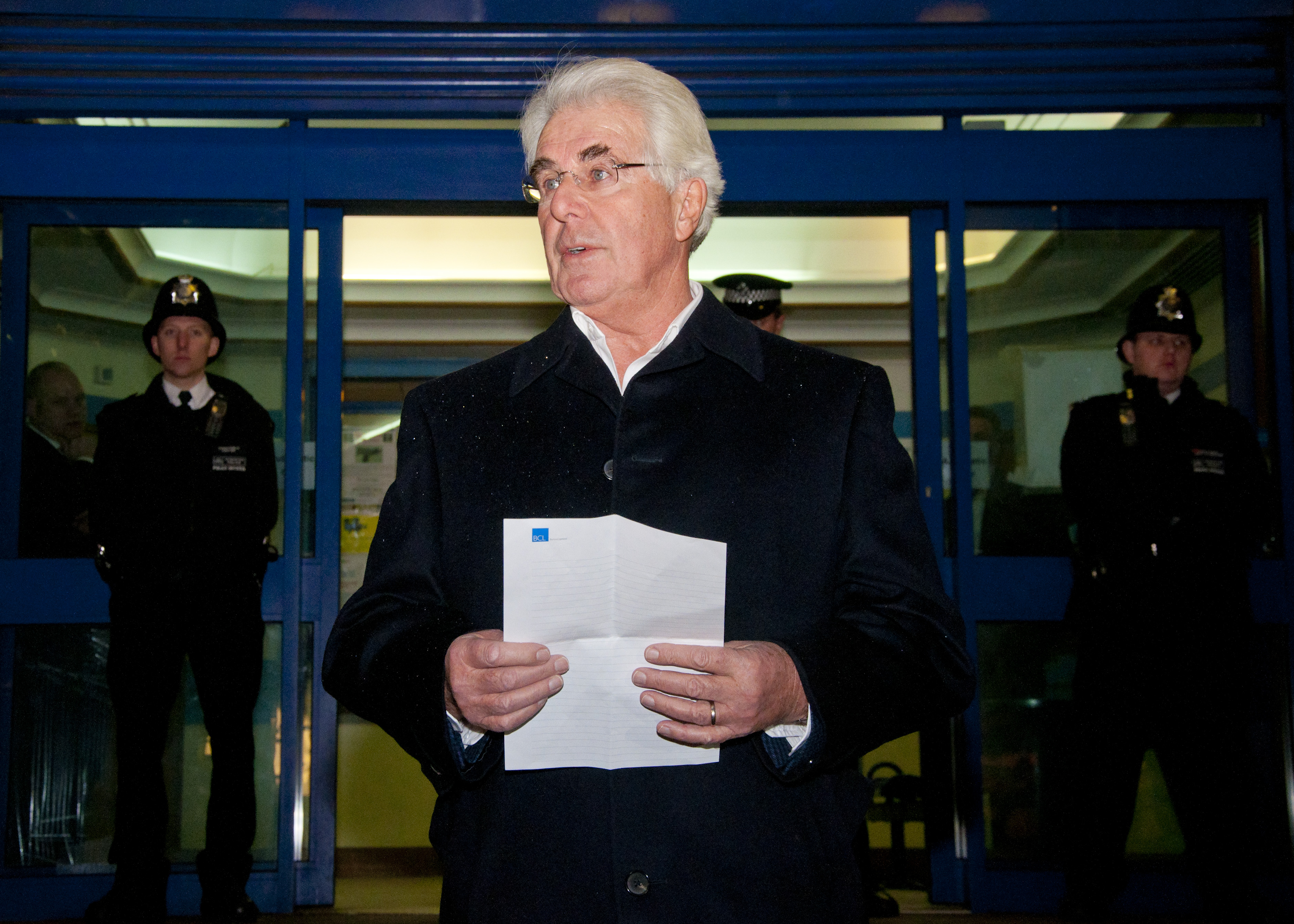 6 December 2012, London; Max Clifford reads from a pre-prepared statement outside Belgravia police station after he was arrested by detectives from Operation Yewtree investigating historic sexual offences termed 'Savile and others'.